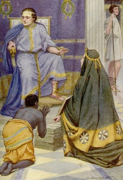 Tarquinius Superbus receiving the Sibylline books from a prophetess